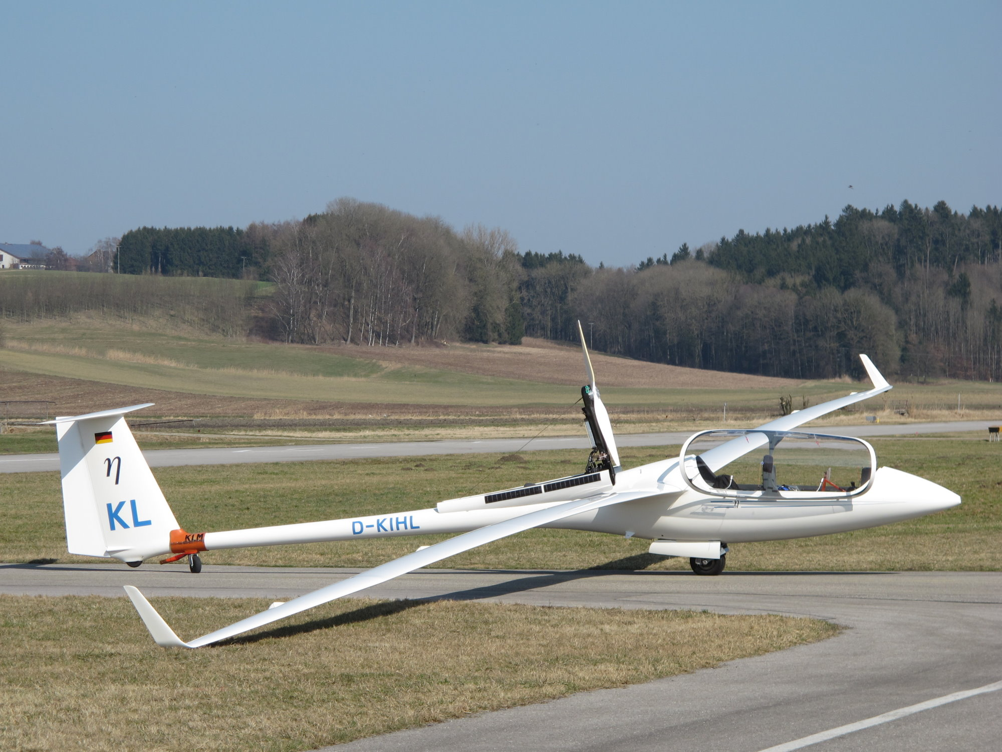 The eta is the world's largest glider.